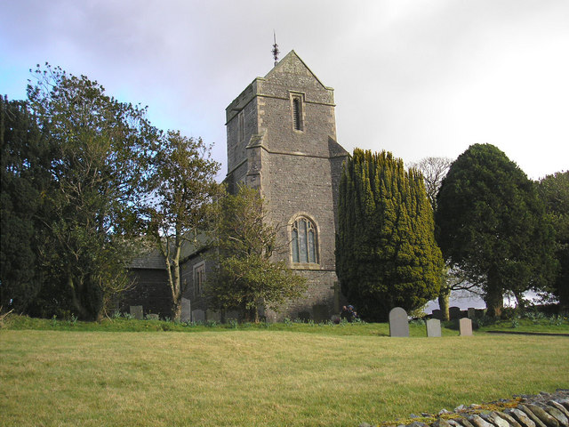 Photograph